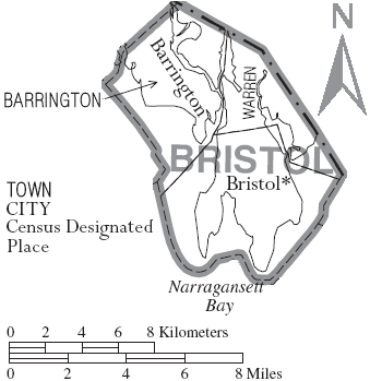 Map of Bristol County, Rhode Island, United States with township and municipal boundaries